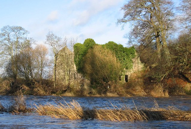 Sunlaws Mill on the River Tweed, south of Roxburgh, Scottish Borders